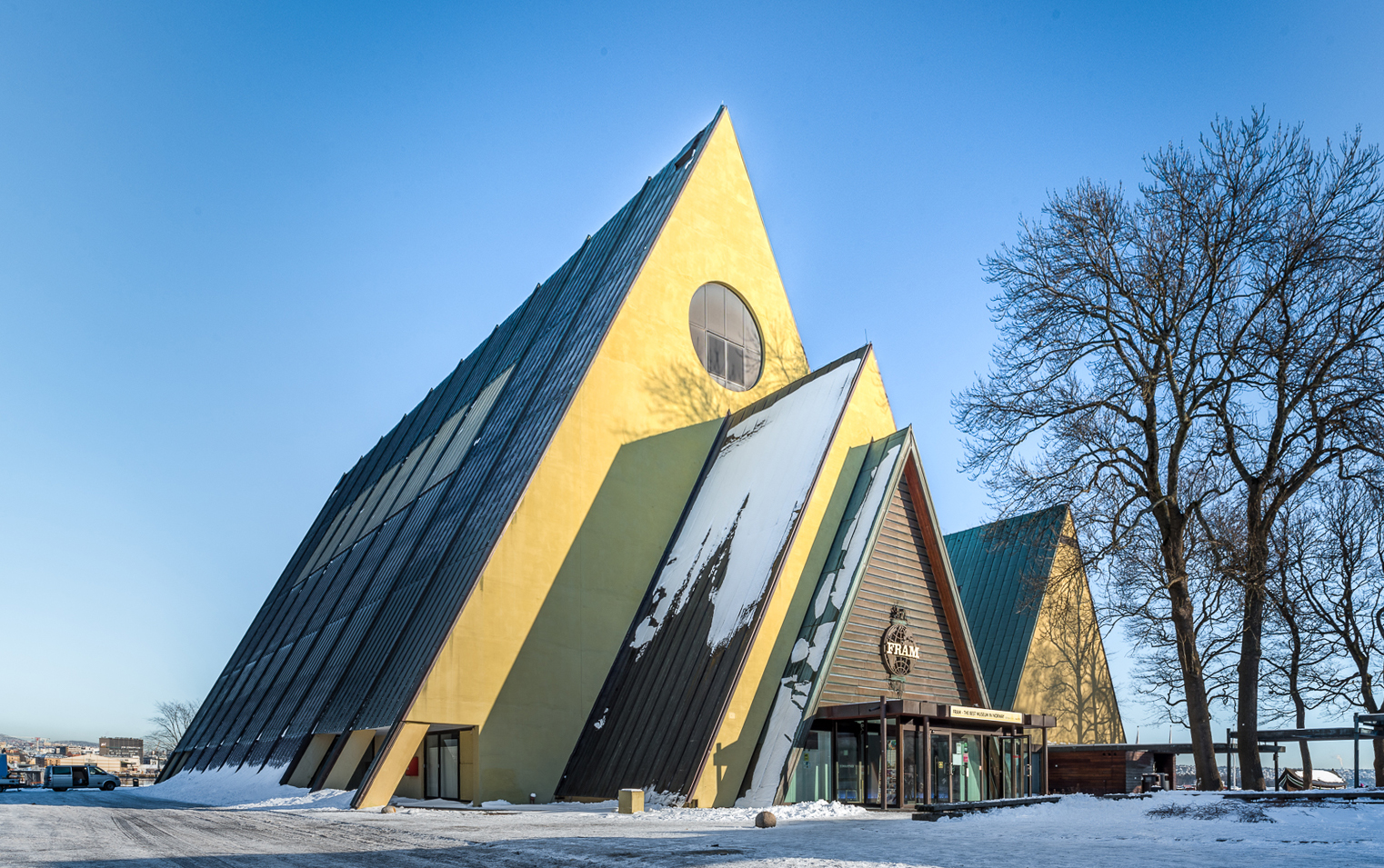 The Fram Museum building exterior, Oslo, Norway.